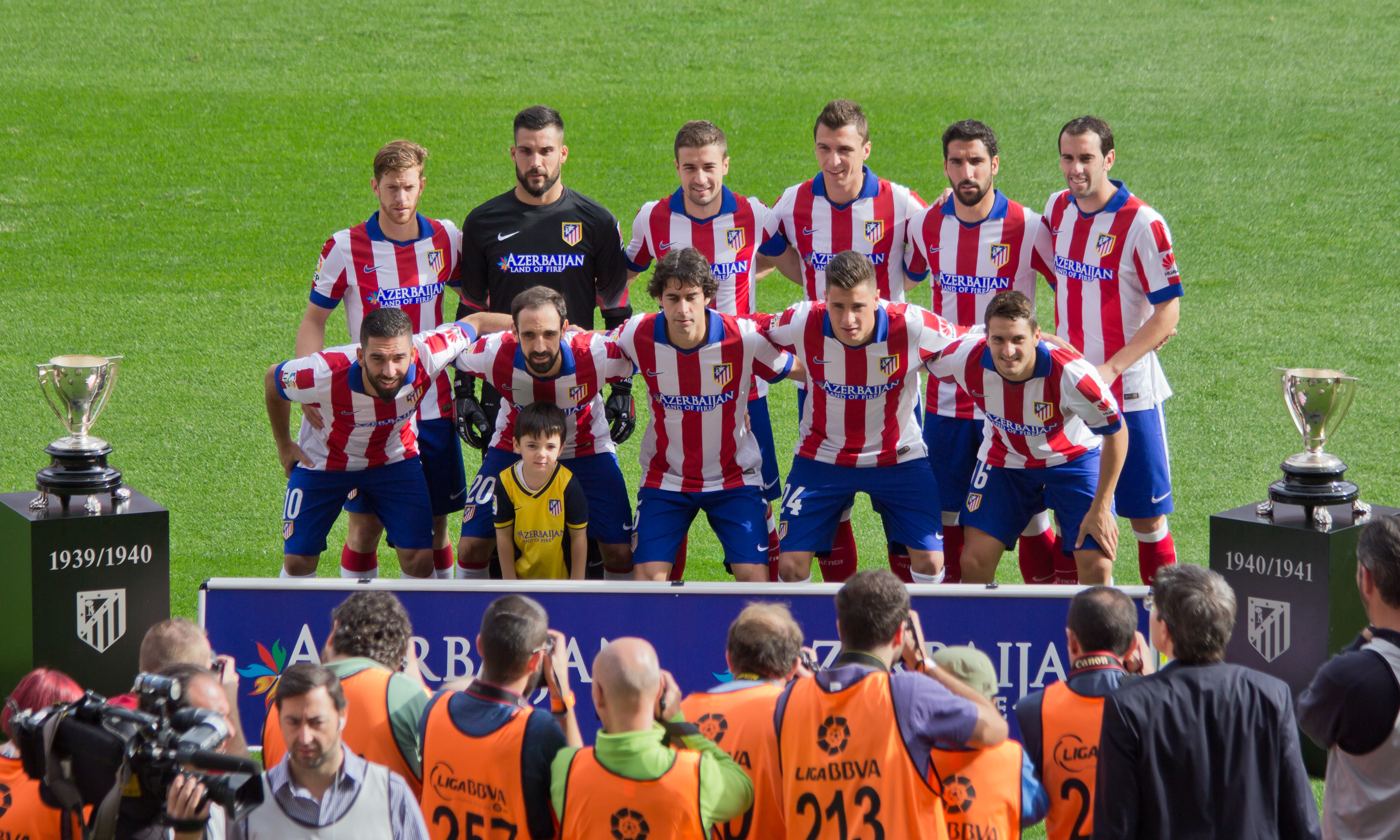 Club Atlético de Madrid before a football game of the 2014–15 season of the Spanish League.